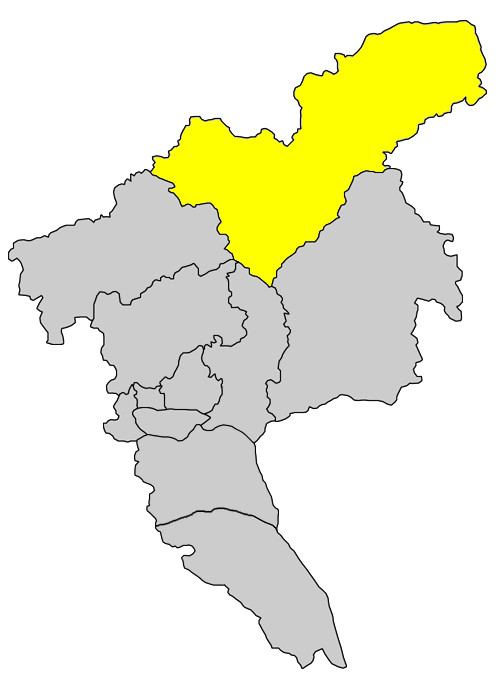 Location of Conghua District, Guangzhou